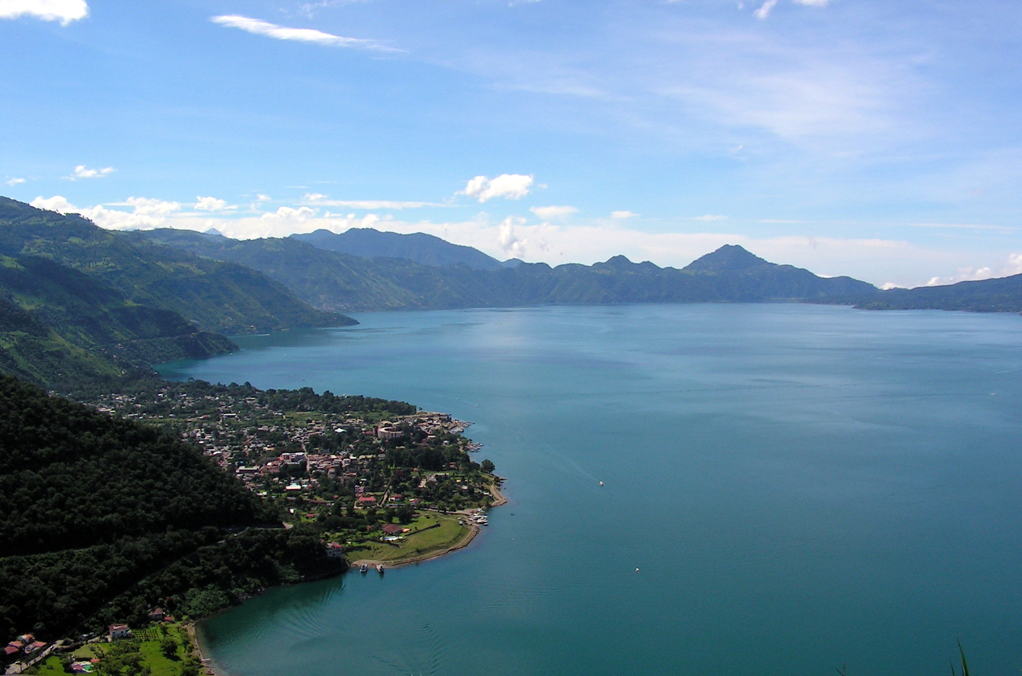 Panajachel, Guatemala, and Lago de Atitlán from an overlook on Highway 1.